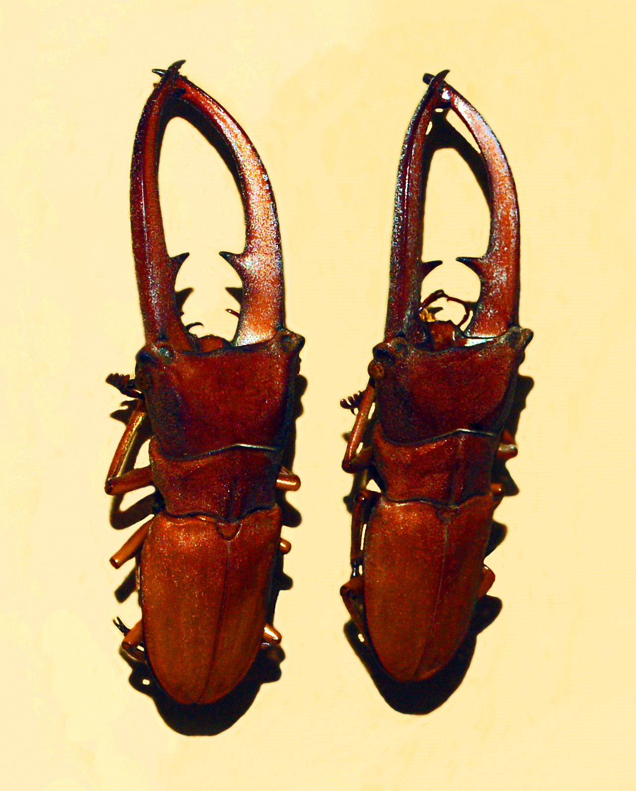 Cyclommatus canaliculatus from Island of Nias